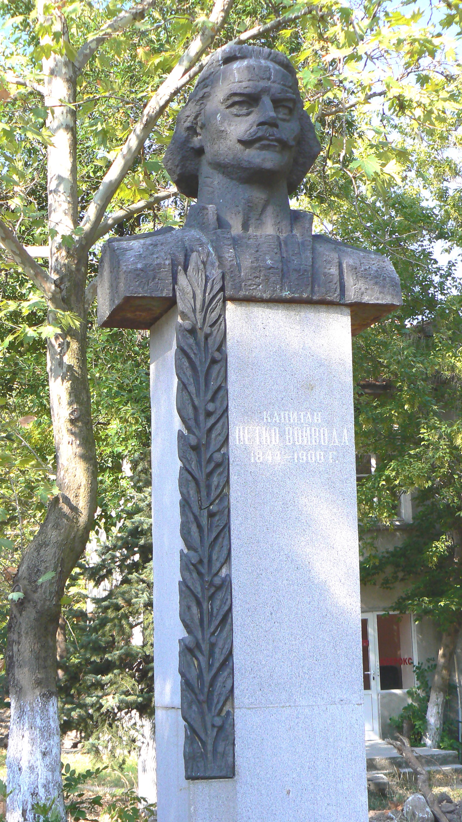 Monument of Captain Petko voivoda in Momchilgrad, Bulgaria